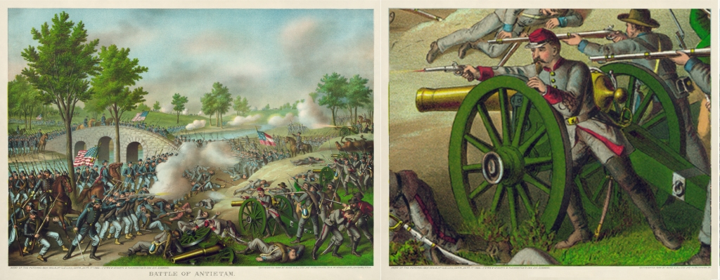 Antietam officer